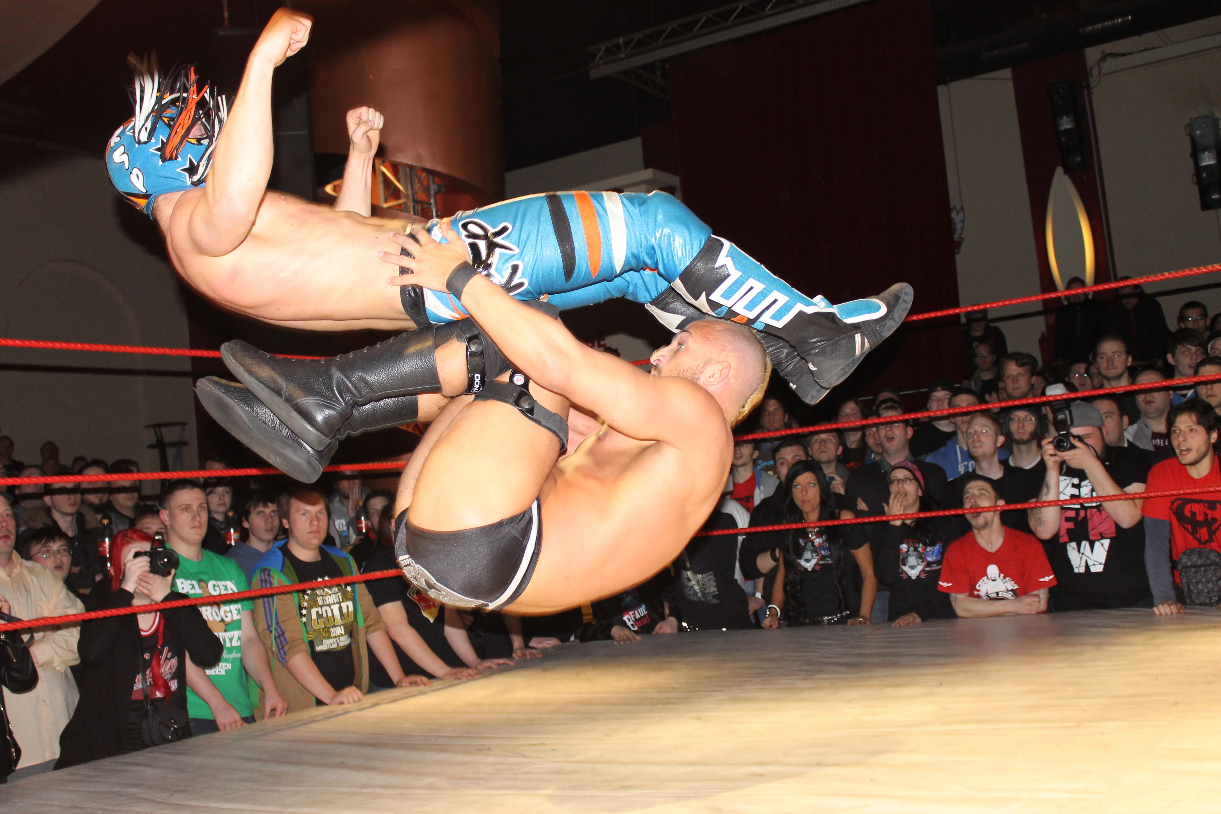 Tommaso Ciampa (in black trunks) executing a Project Ciampa (a Powerbomb dropped into a double knee backbreaker) on his opponent Miguel Ramirez. The picture was taken at wXw's "16 Carat Gold Tournament 2014 - Day 3" in Oberhausen, Germany